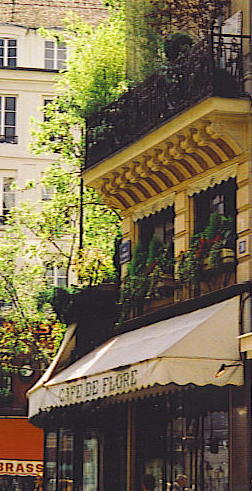 Part of photograph of St Germain, Paris taken in May 2000 by IXIA 16:43, 6 October 2006 (UTC)